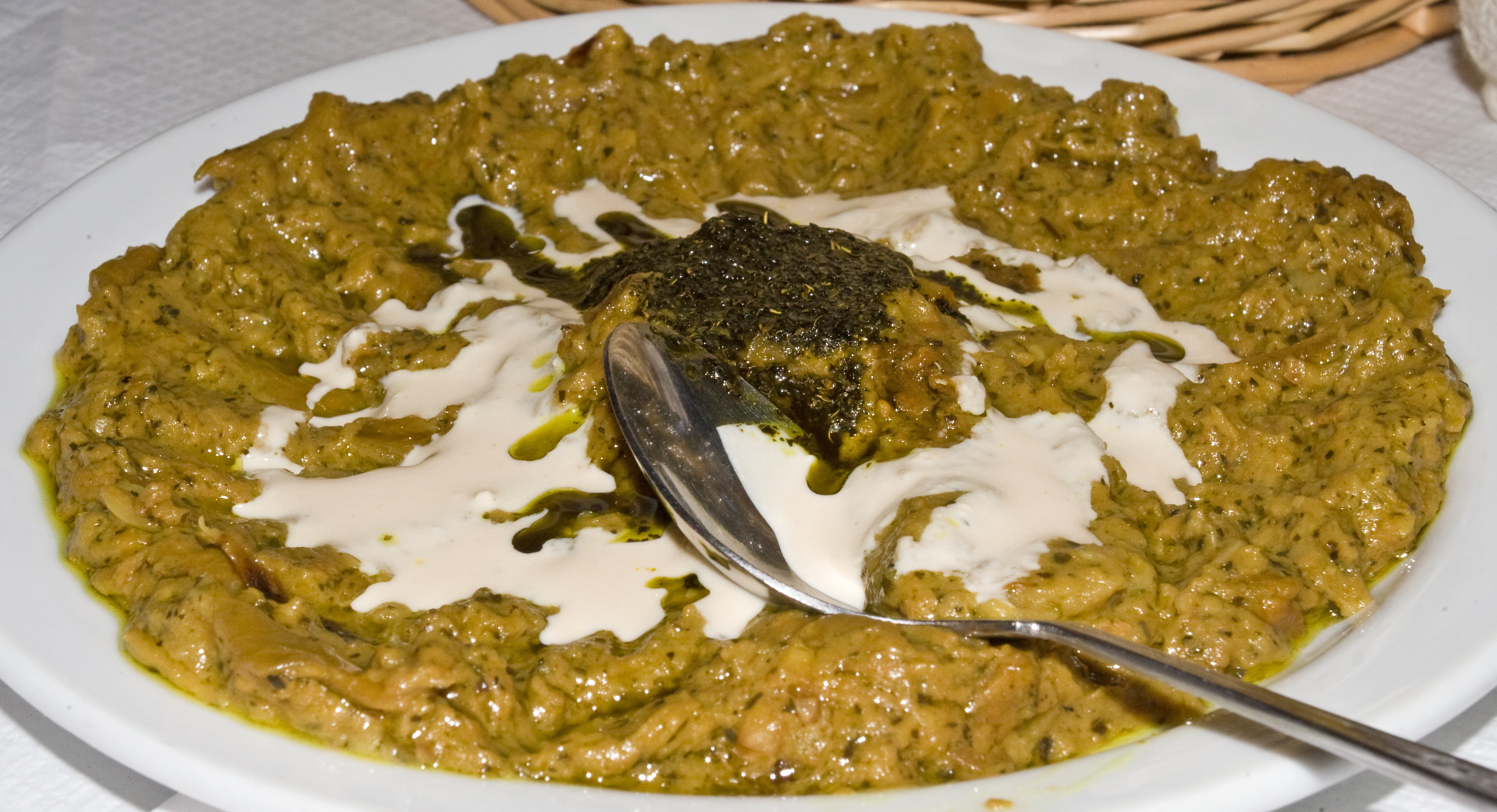 Kashk-o Bademjan